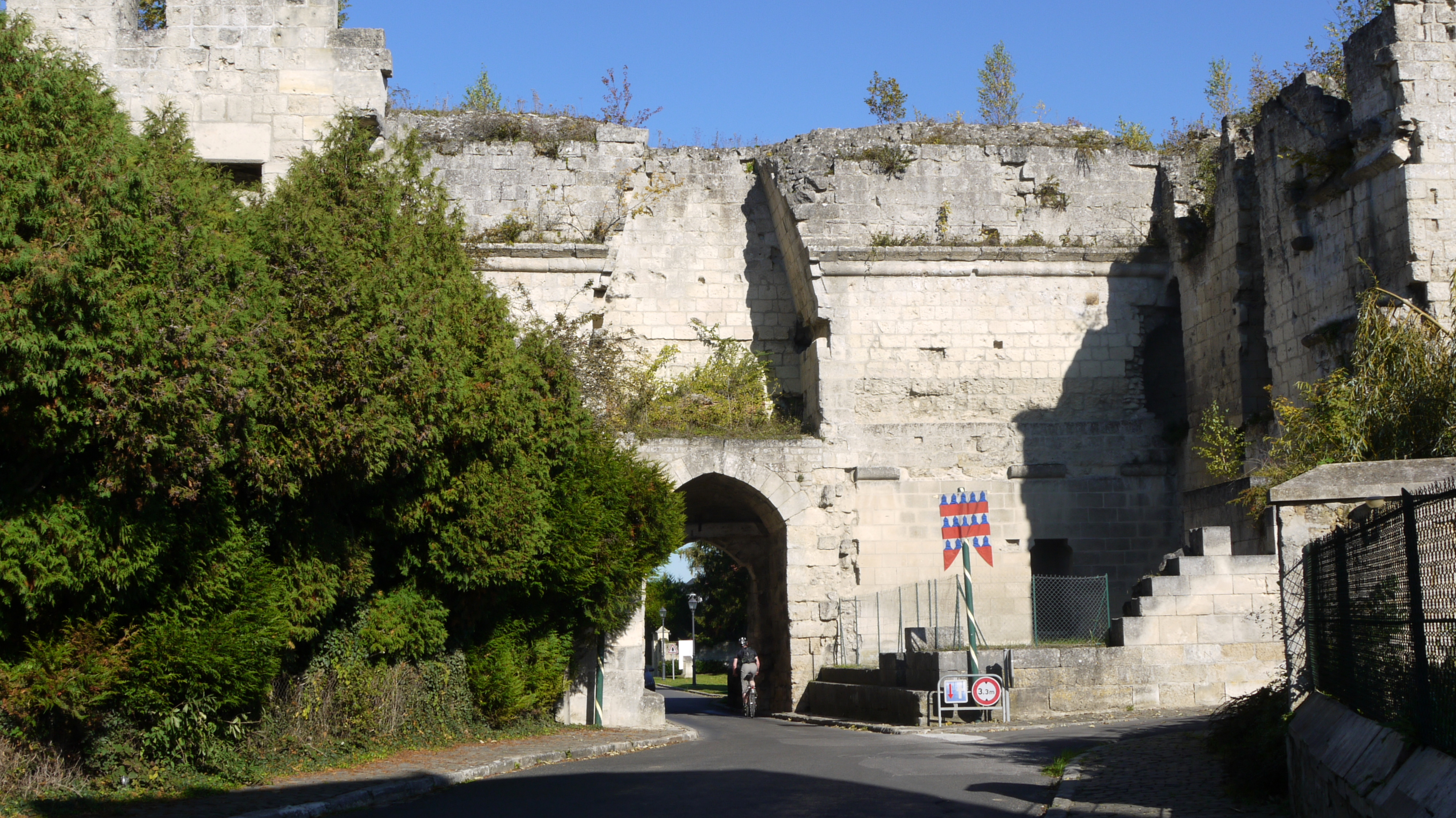 Laon's Gate Coucy le Chateau Auffrique , Aisne , France